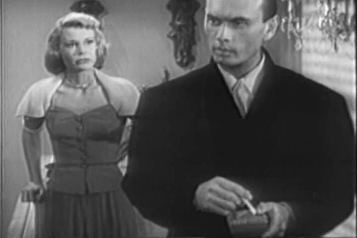 Yul Brynner & K.T. Stevens in Port of New York (cropped screenshot)